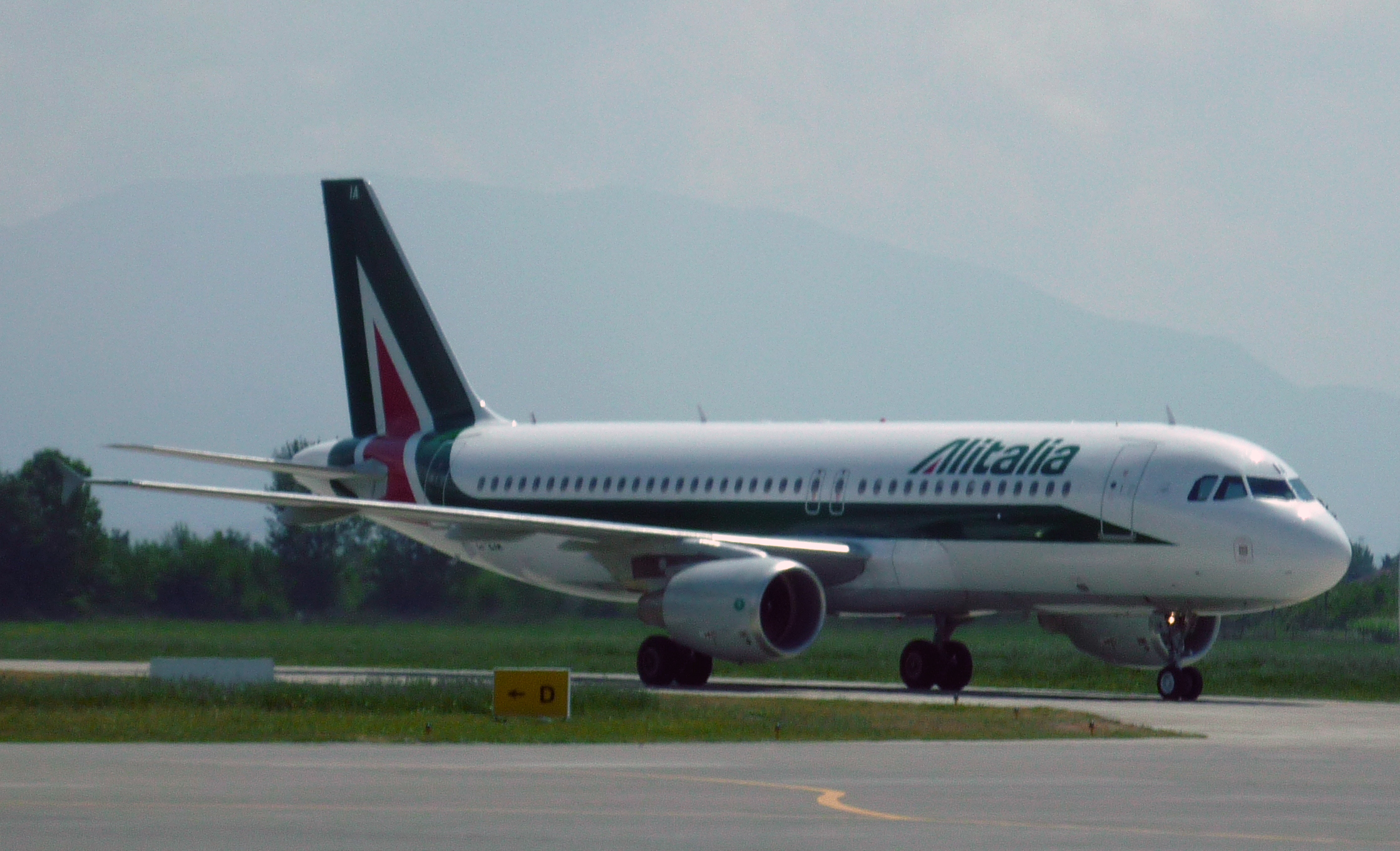 Alitalia Airbus A320-200 registrated EI-EIA (Ireland) at Tirana International Airport.